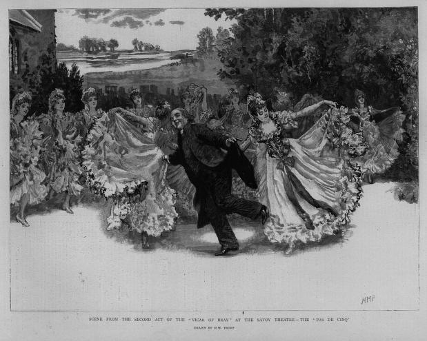 Scene from the second act of the The Vicar of Bray at the Savoy Theatre - The "Pas de Cinq' First Published on page 173 in The Graphic, 6 February 1892.